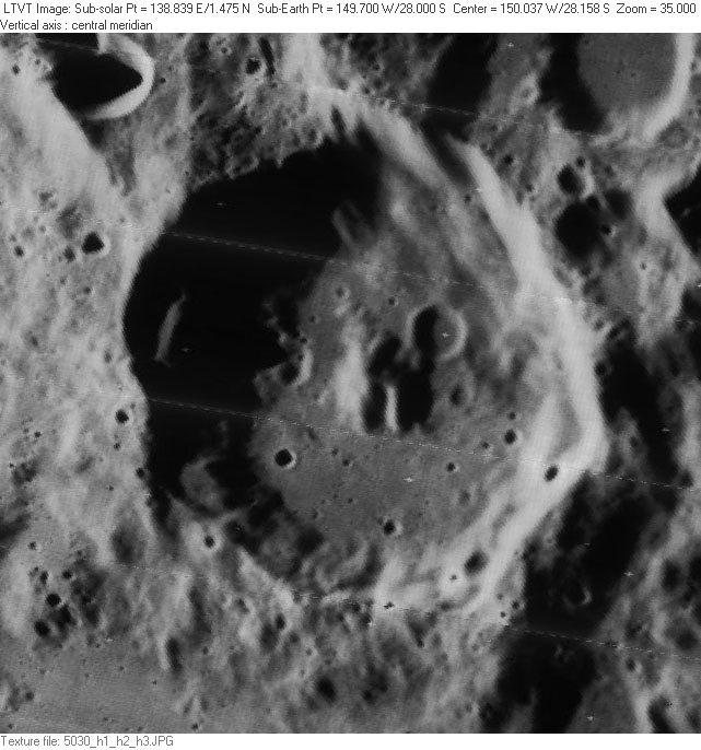 Barringer crater on the image LO-V-030H